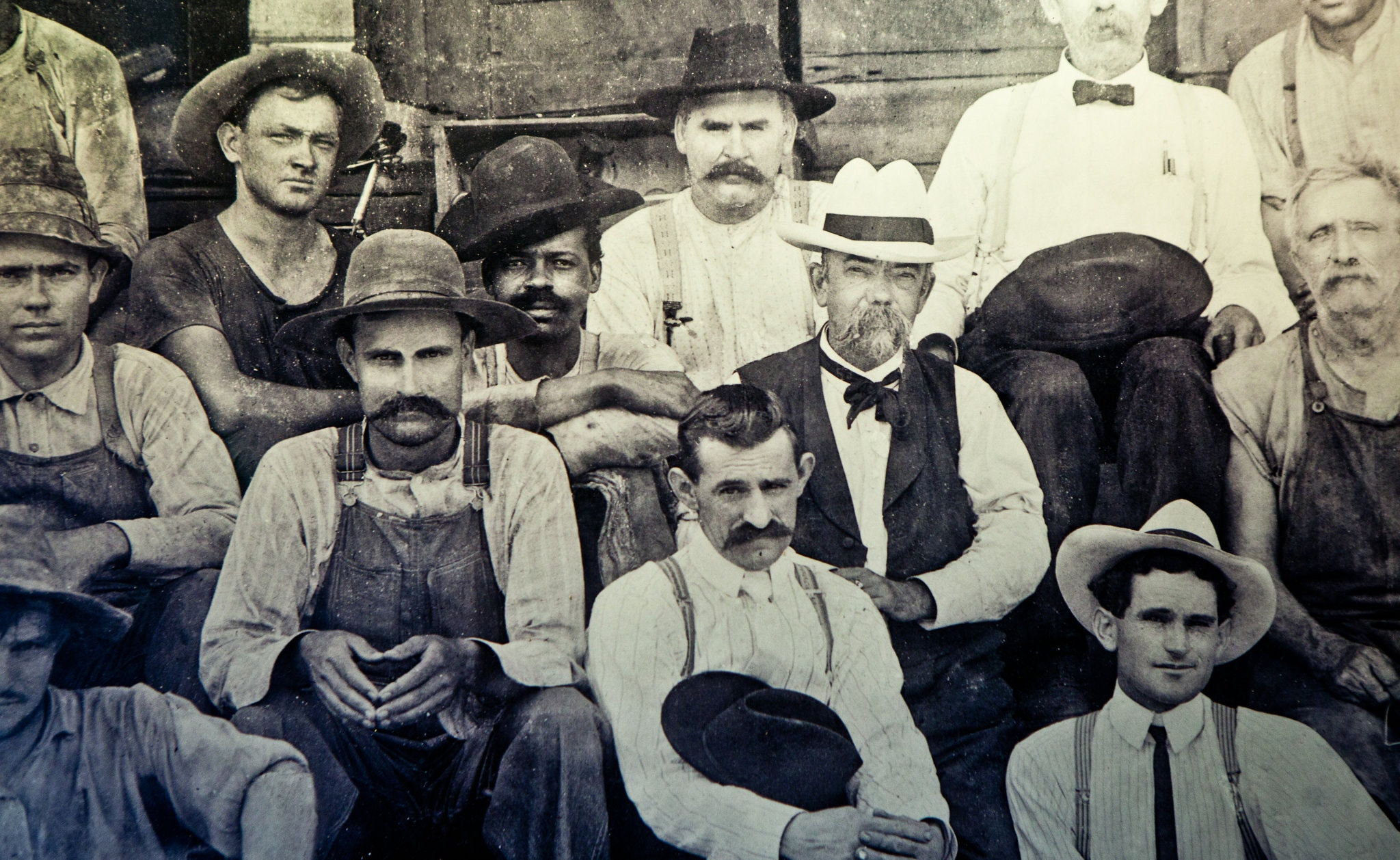 Historic image of Jack Daniel seated next to George Green, the son of Nathan "Nearest" Green, the man who taught Jack Daniel how to make whiskey.